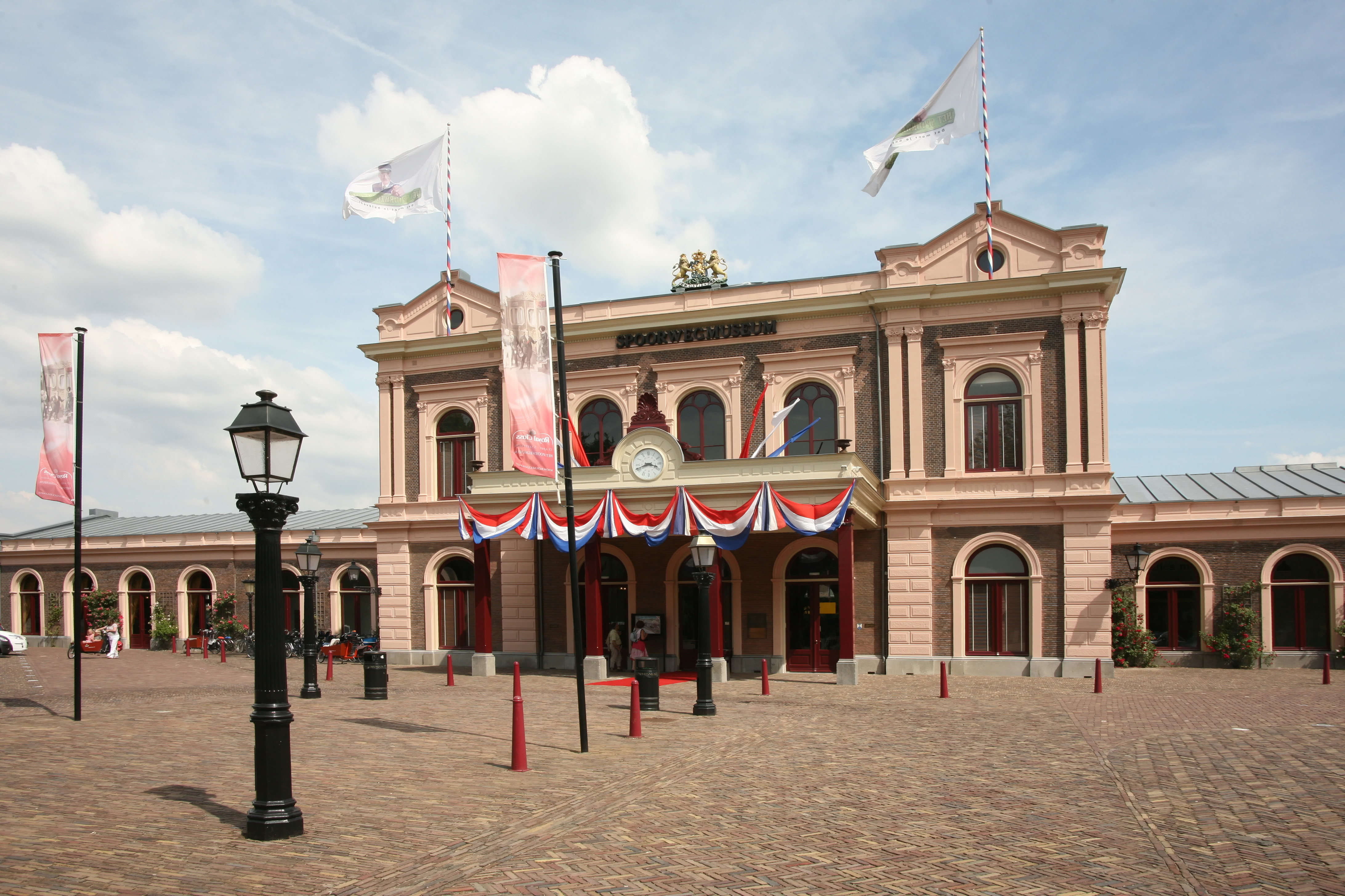 railway museum (105)